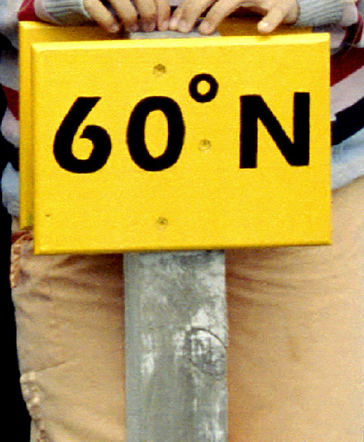 Geographical signpost. You don't often see signs showing your latitude! This one is on the A970.